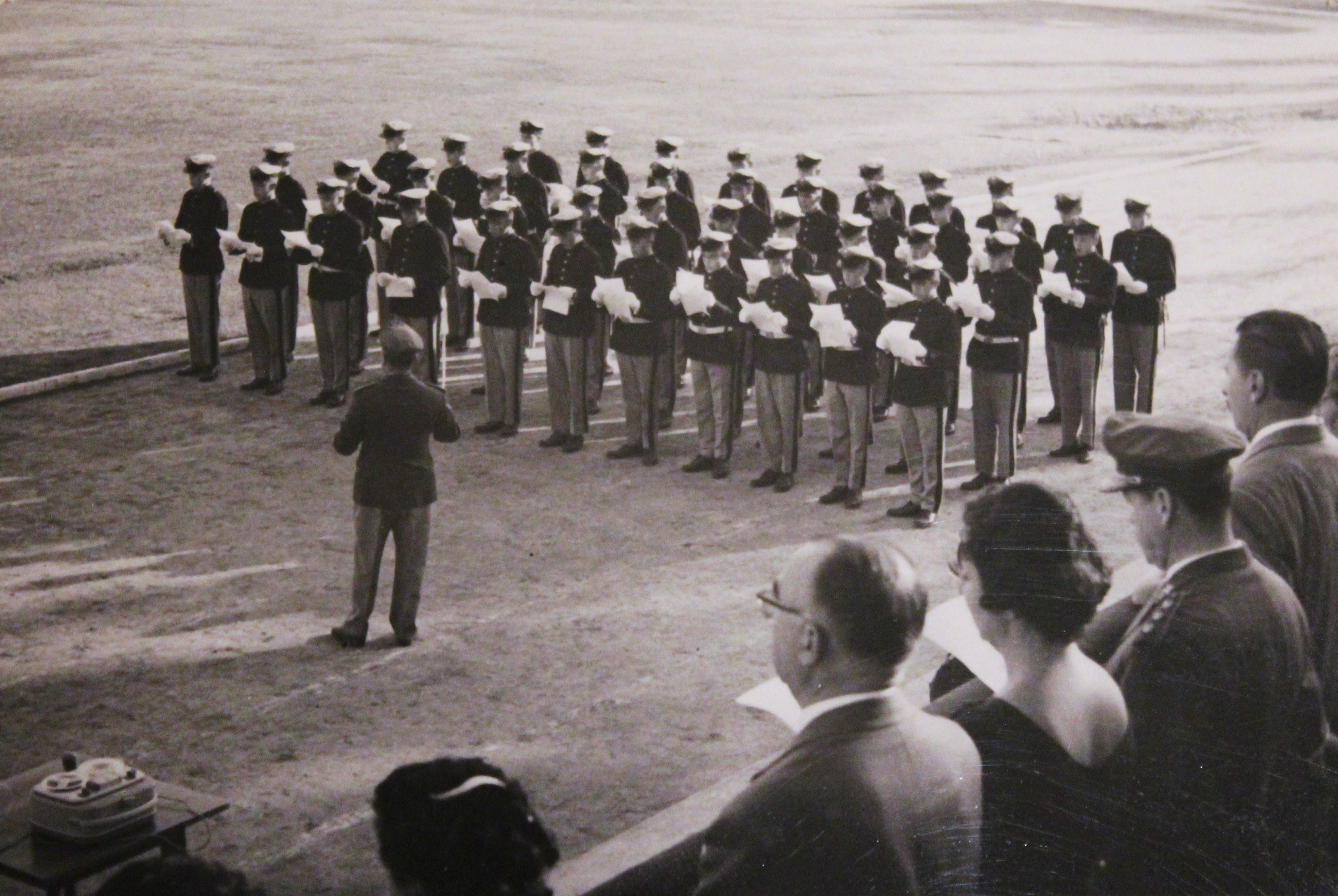 First performance of Belgrano March-Song